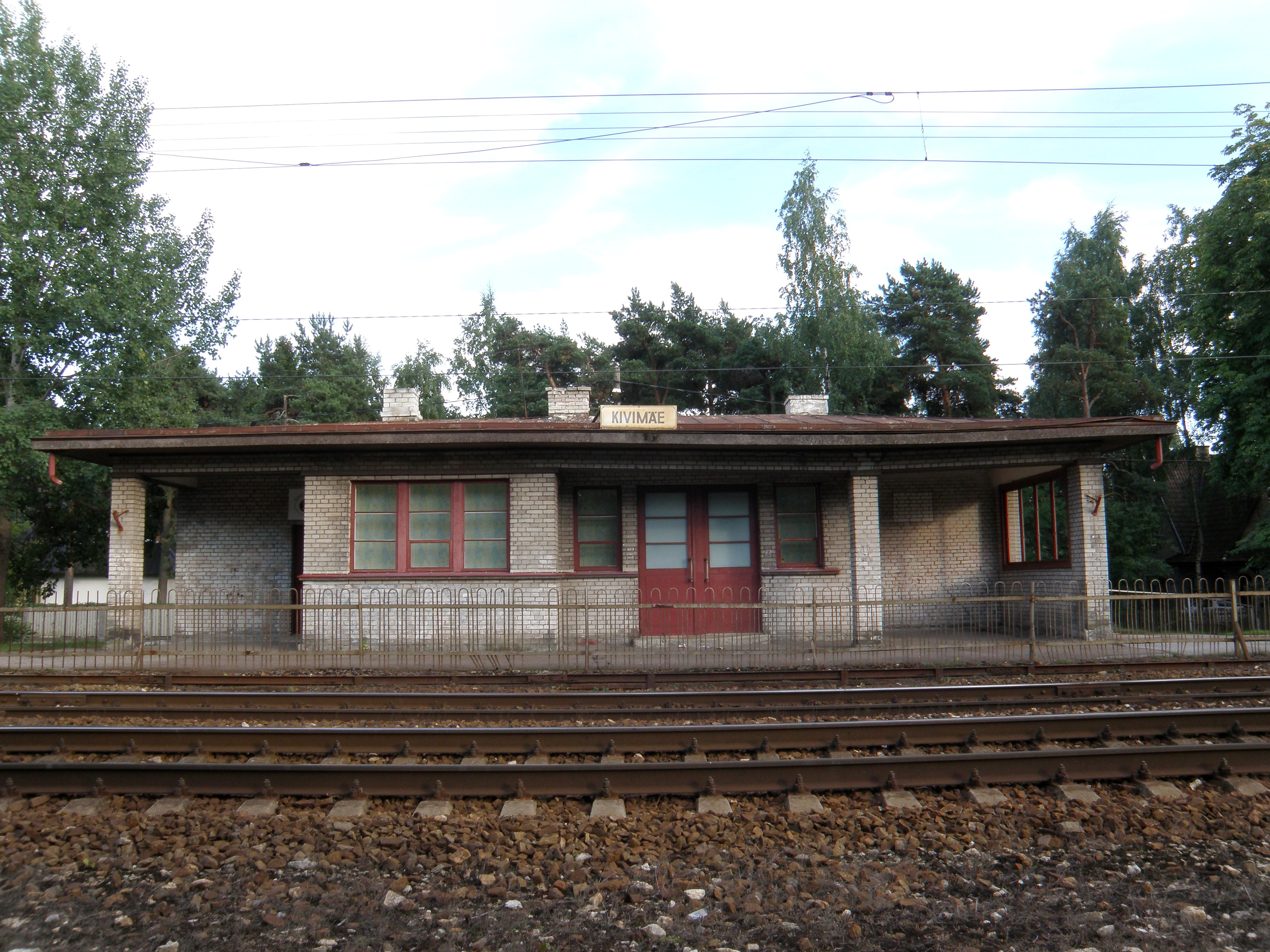 Kivimäe jaamahoone